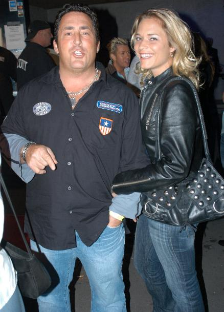 Rob Spallone, Leah aka Cameron Cain at Listeners Choice Awards, December 2 2006